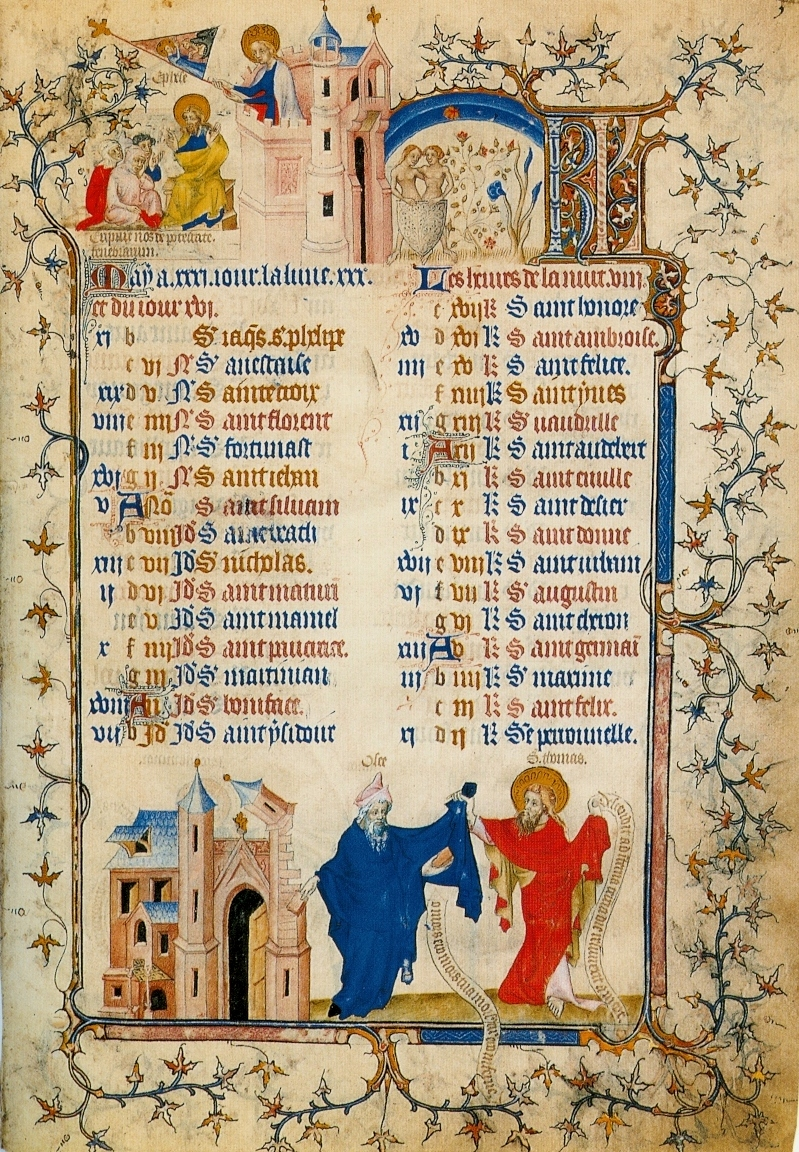 Jean Le Noir. Miniature from Petites Heurs du Duc Jean de Berry 1372-75 Paris, Bibliotheque nationale de France.